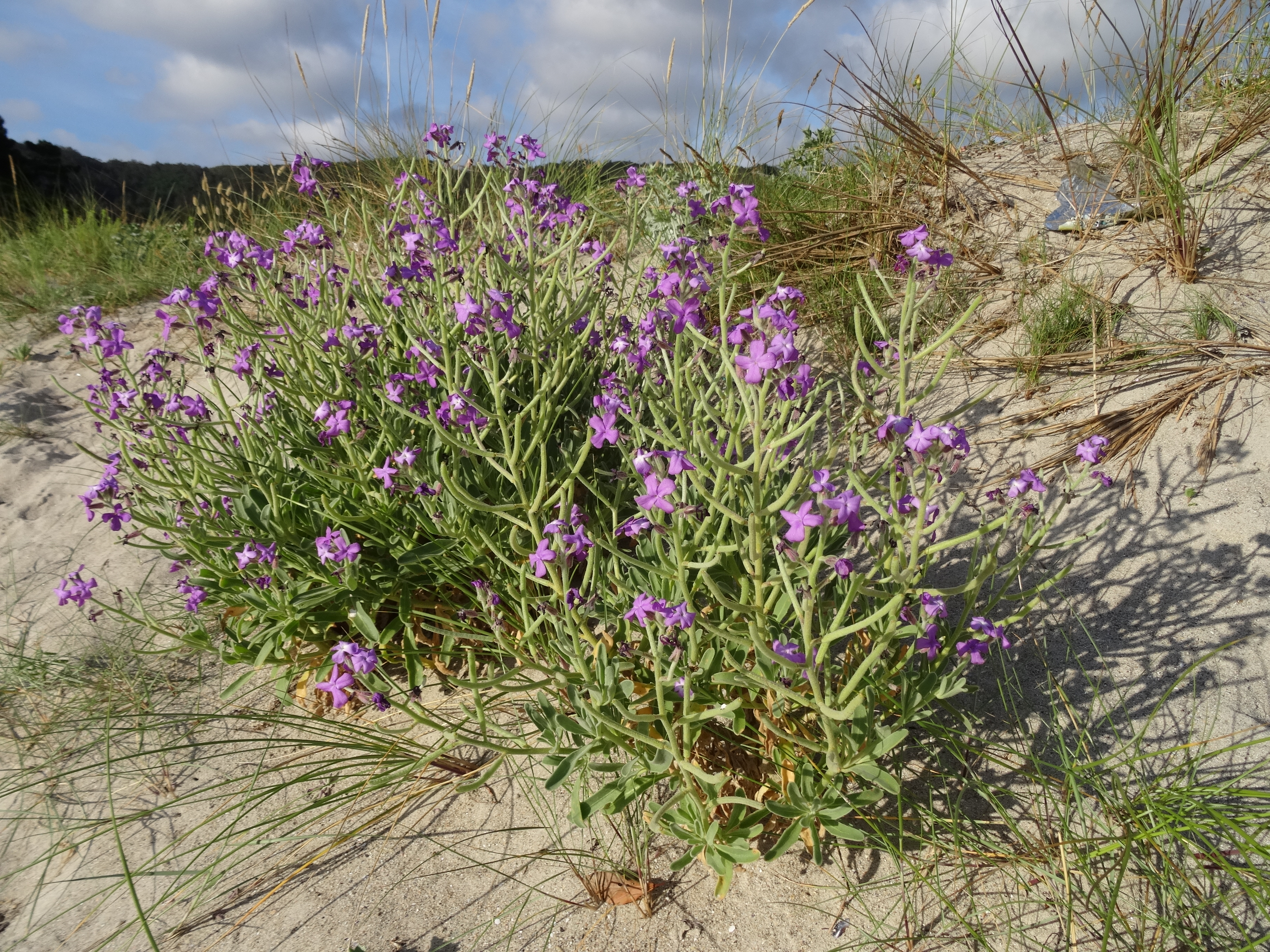 Sea Stock, Matthiola sinuata, at beach of Balares, municipality of Ponteceso (Spain).